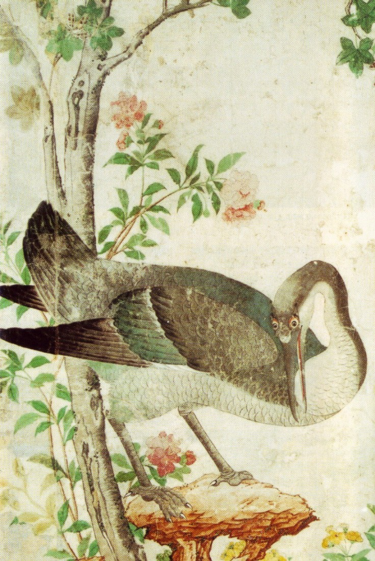 Wallpaper in the palace of Paretz, a village near Potsdam, Germany. Detail.